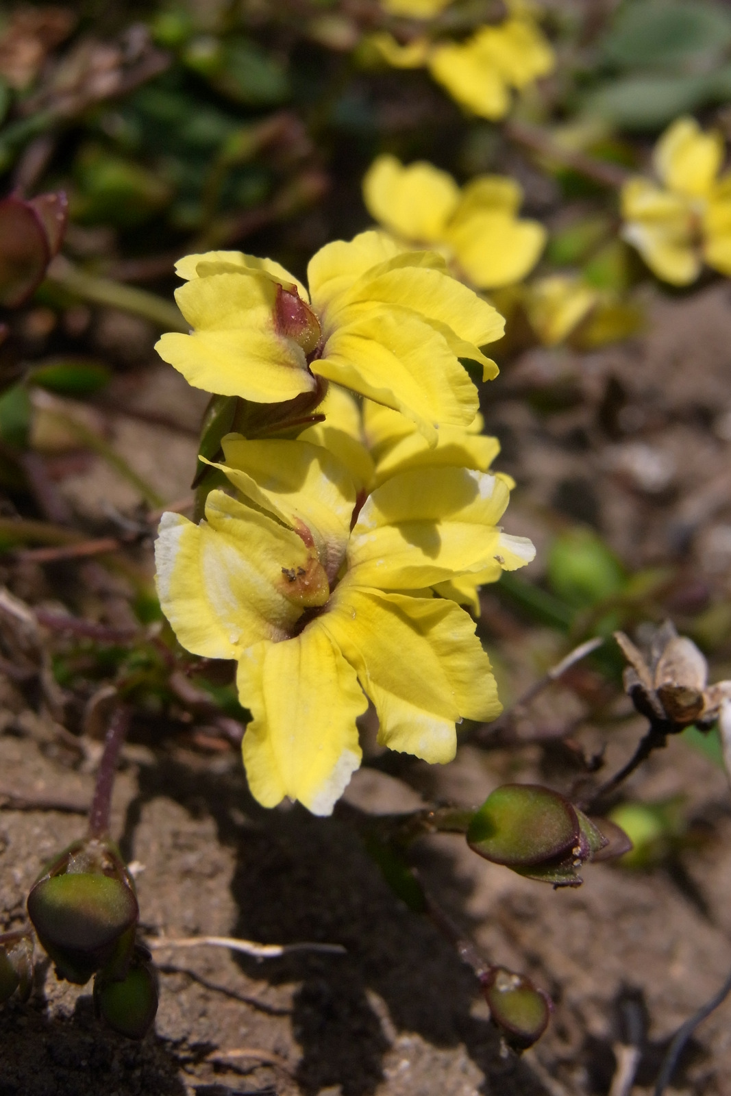 Goodenia paniculata Cape Byron. Plant labelled by the National Parks & Wildlife Service